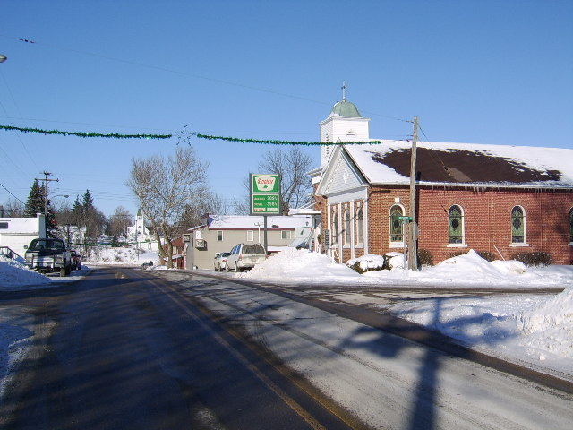 Scales Mound - Franklin Street (view north includes 2 churches and a gas station)